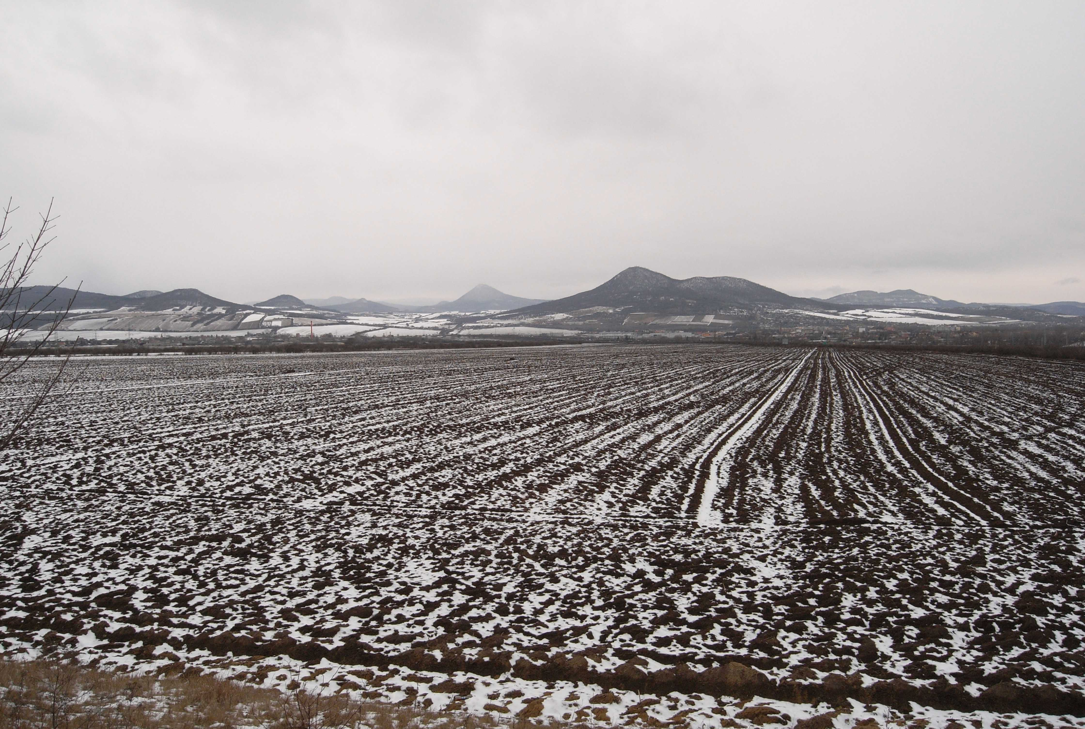 České středohoří near Litoměřice (Northern Bohemia, Czech Republic)